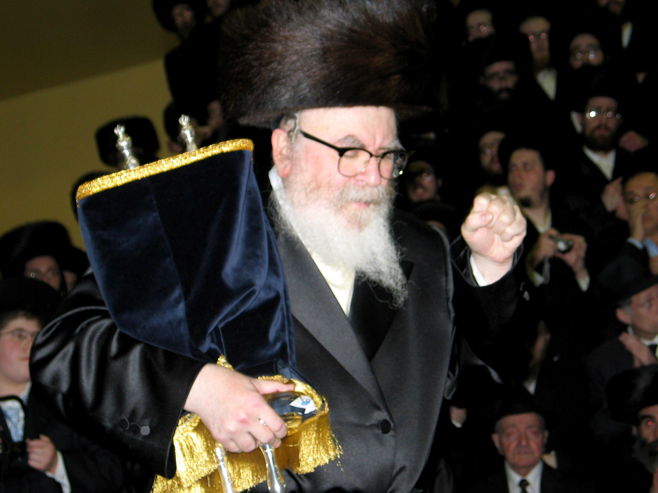 David Twersky (Skverer Rebbe), a scion of the Chernobyl dynasty, dancing with Torah (2005) I took the photo. There are no rights reserved.